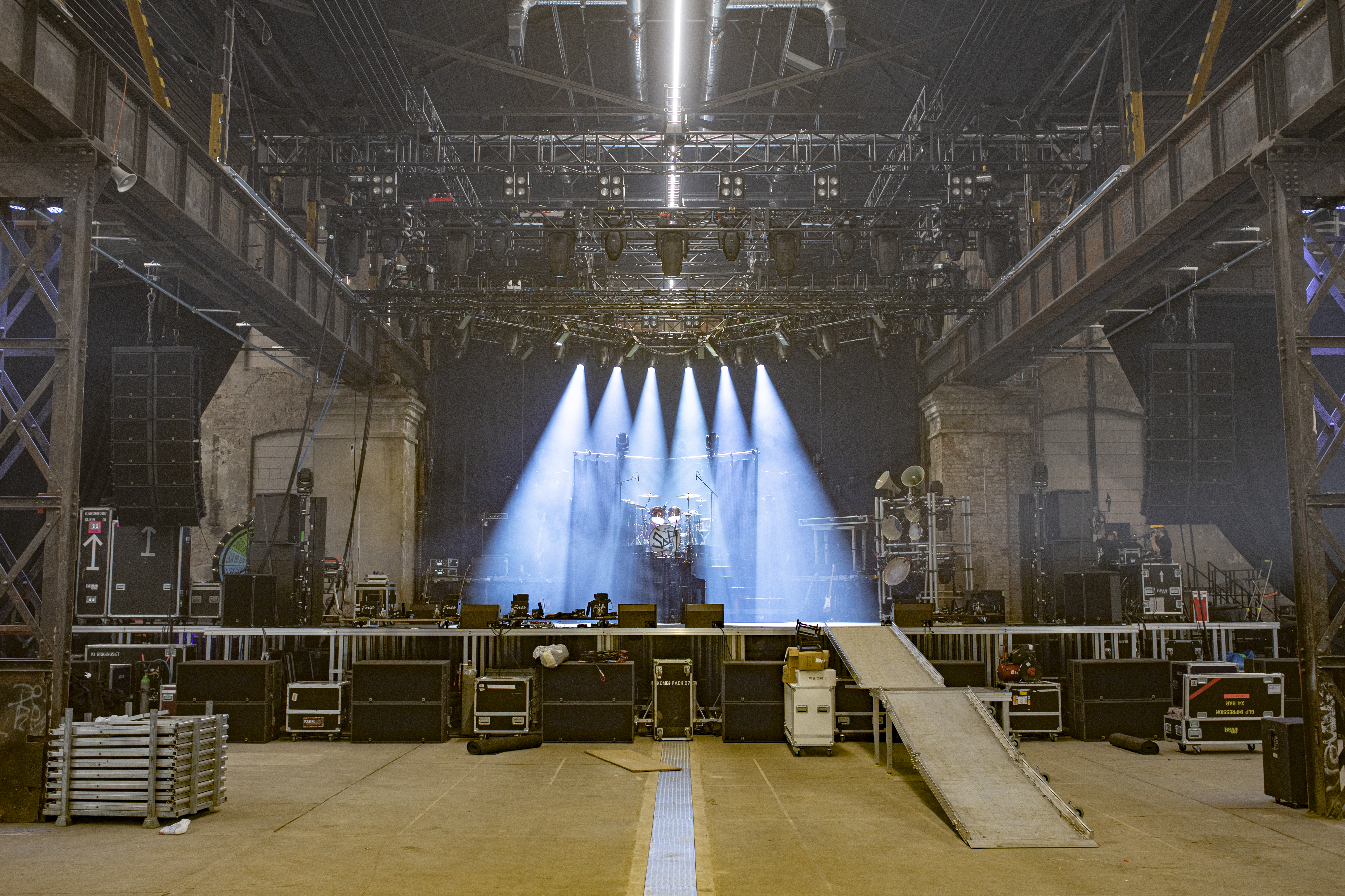 Warsteiner Music Hall, Dortmund